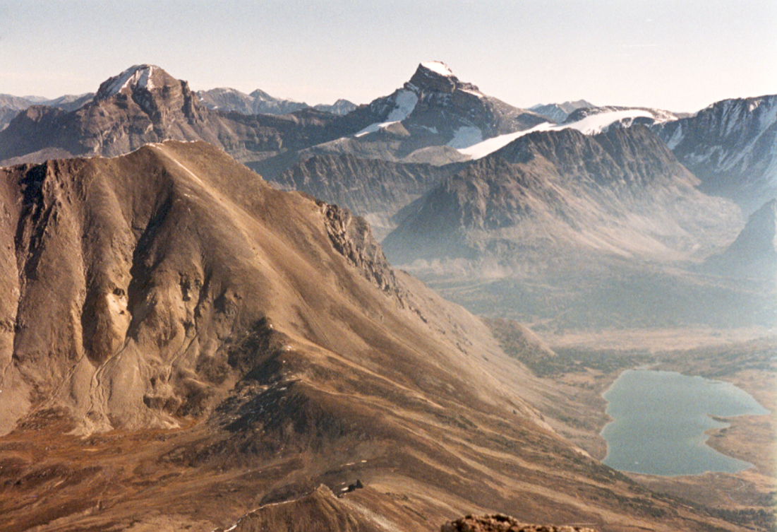 Mount St. Bride centered in the distance. Fossil Mountain lower left. Mt Douglas upper left. Baker Lake lower right.